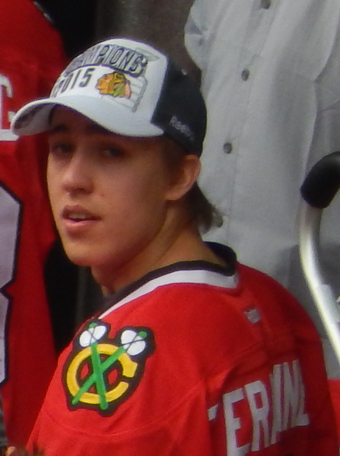 Teuvo Teravainen at the Chicago Blackhawks 2015 victory rally